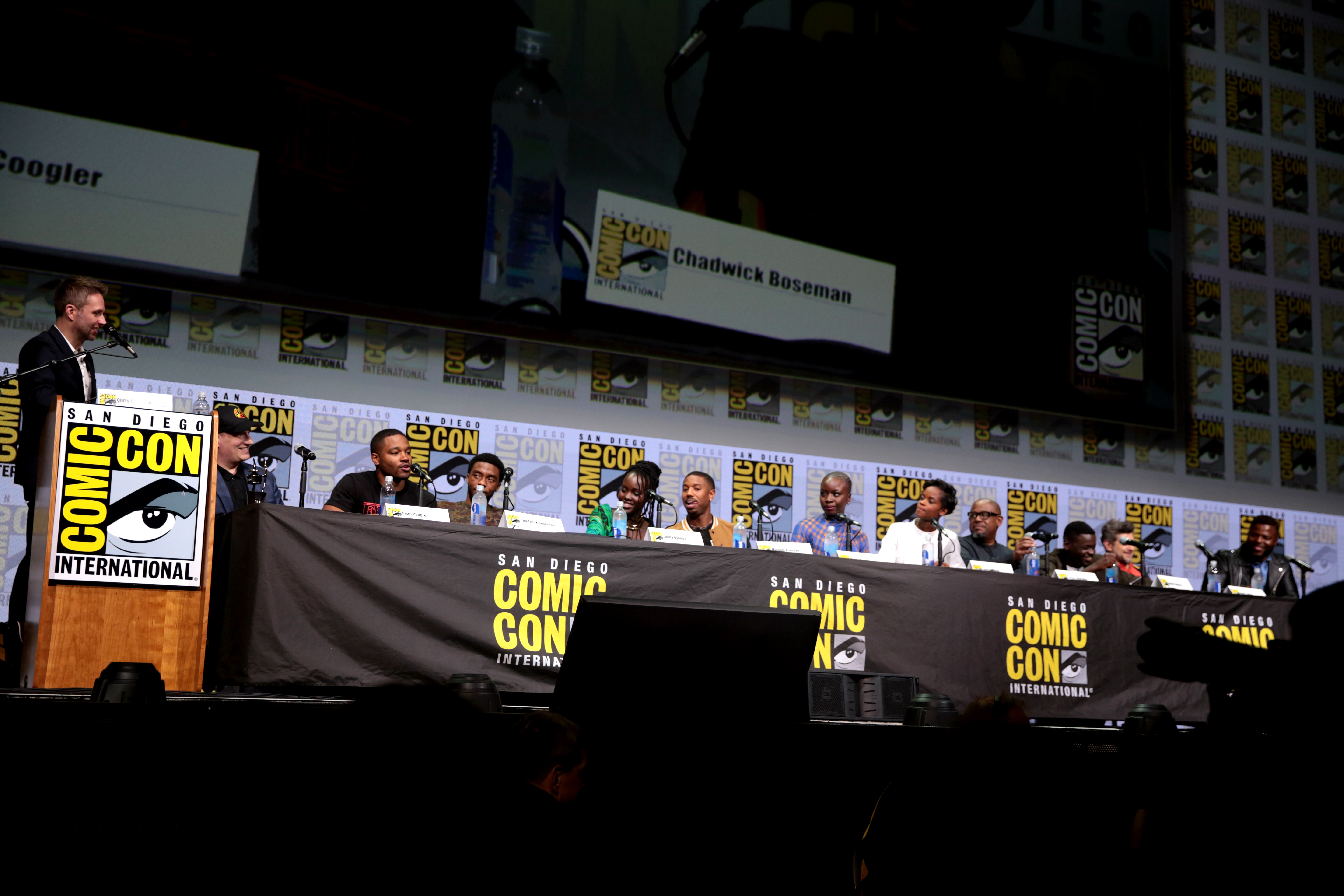 Chris Hardwick, Kevin Feige, Ryan Coogler, Chadwick Boseman, Lupita Nyong'o, Michael B. Jordan, Danai Gurira, Letitia Wright, Forest Whitaker, Daniel Kaluuya, Andy Serkis and Winston Duke speaking at the 2017 San Diego Comic Con International, for "Black Panther", at the San Diego Convention Center in San Diego, California.